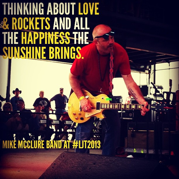 Thinkin' 'bout Love & Rockets Mike McClure Band at #LJT2013